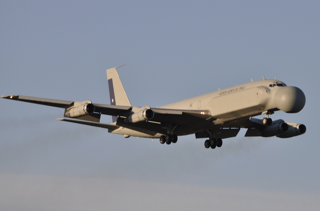 Pudahuel AFB, Santiago de Chile, September 2010